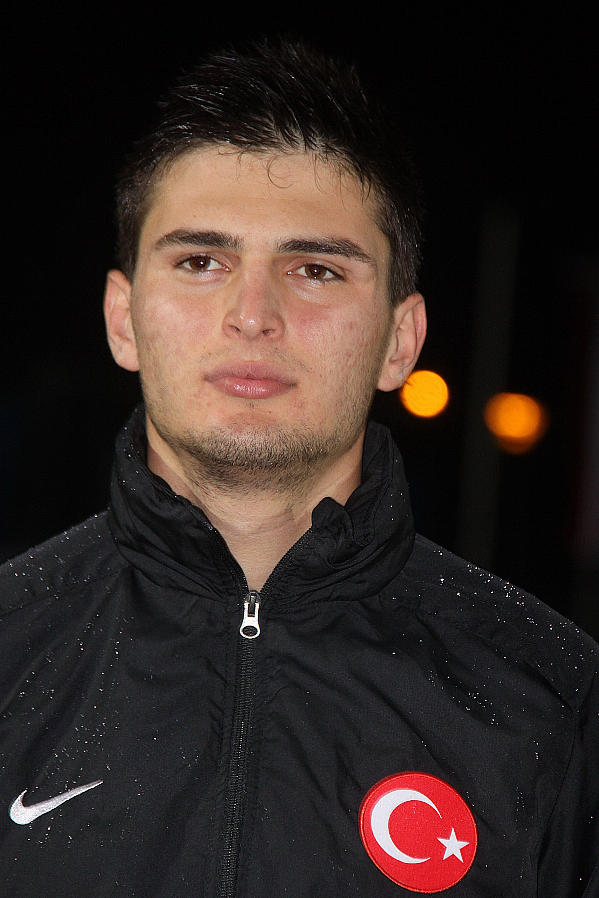 Friendly-match Austria U-21 vs. Turkey U-21 (2:0) on 2013-11-14 in Wiener Neudorf. – The photo shows Okay Yokuşlu (Kayserispor, Turkey).